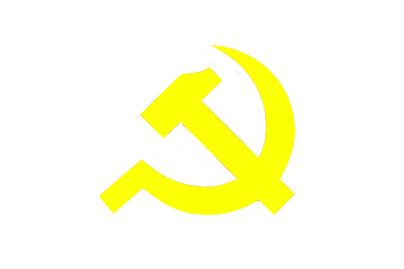 Hammer and Sickle of the Communist Party of Vietnam